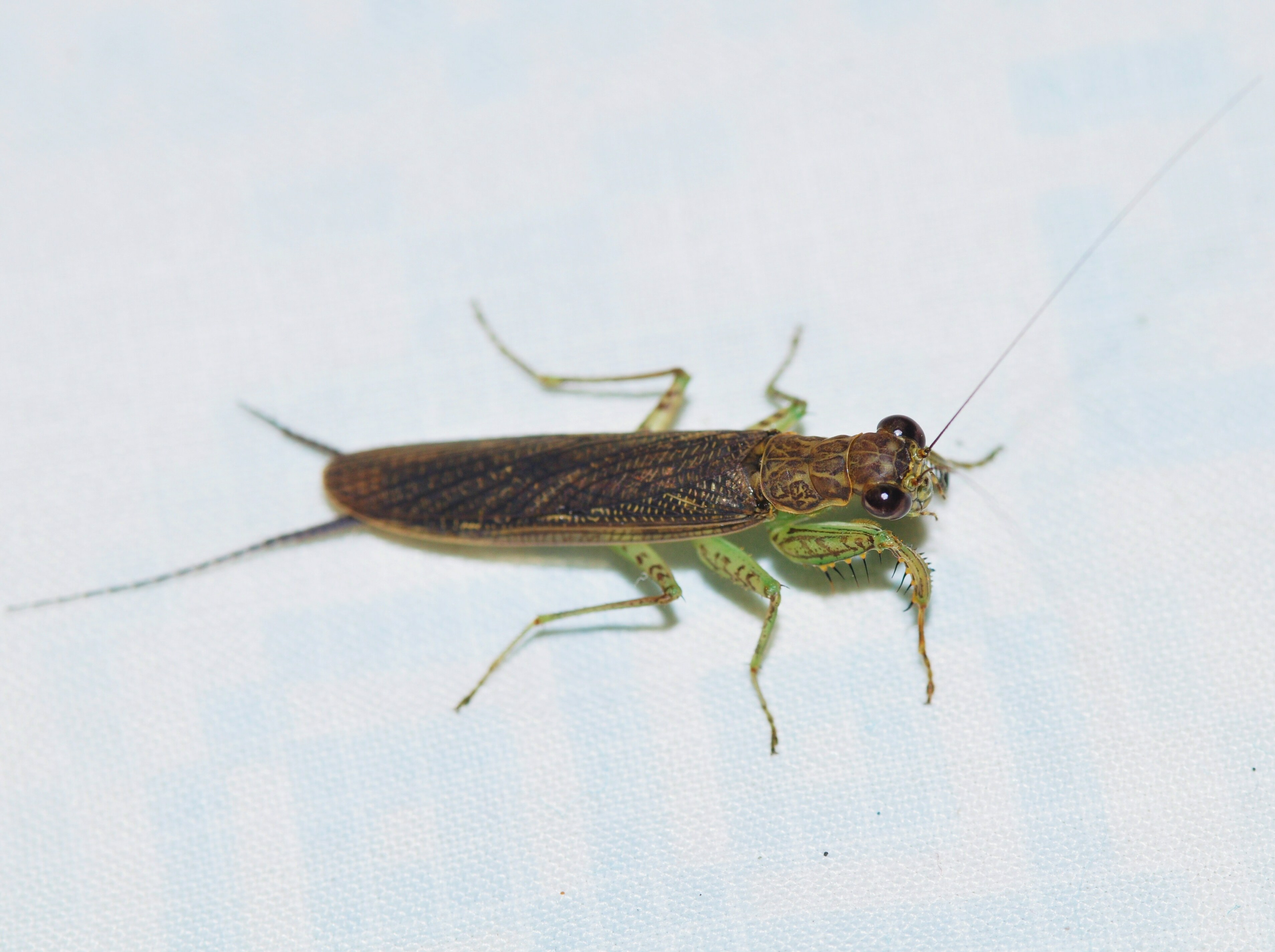 Chaeteessa caudata, as the only known species known from Costa Rica. Thanks to Evgeny Shcherbakov a.k.a Dracus for genus ID